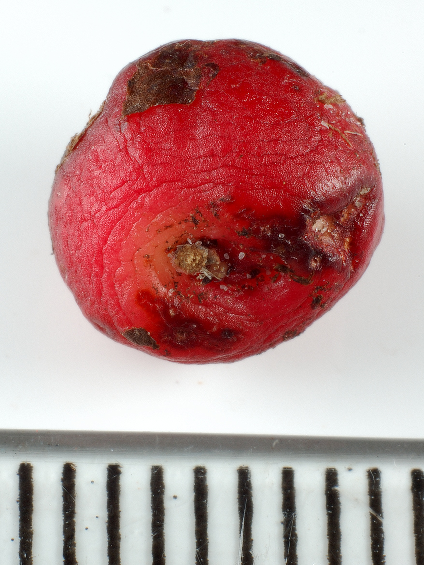 Drosera menziesii